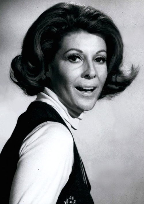 A promotional photograph of actress Susan Brown in 1975.